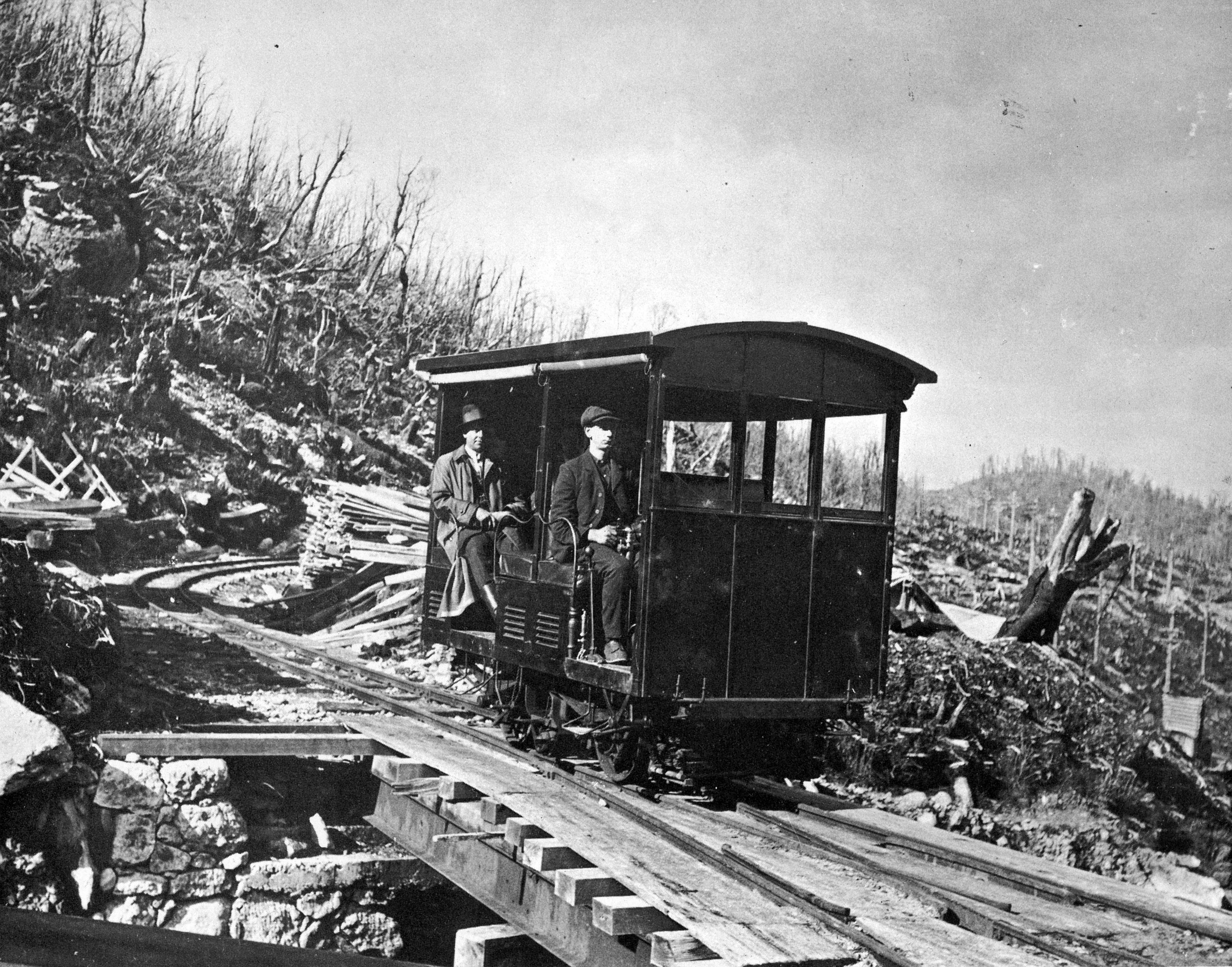 Lake Margaret Tramway Riley railmotor arriving at Lake Margaret, circa 1920. H J King photo